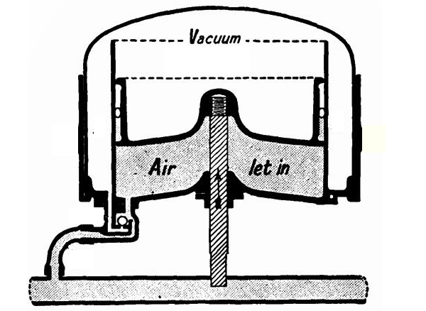 Diagram of railroad vacuum brake cylinder in the applied position, from How It Works by Archibald Williams (died 1934). Pub by Thomas Nelson (publisher) in London and New York 1908. Minor adjustments by uploader.